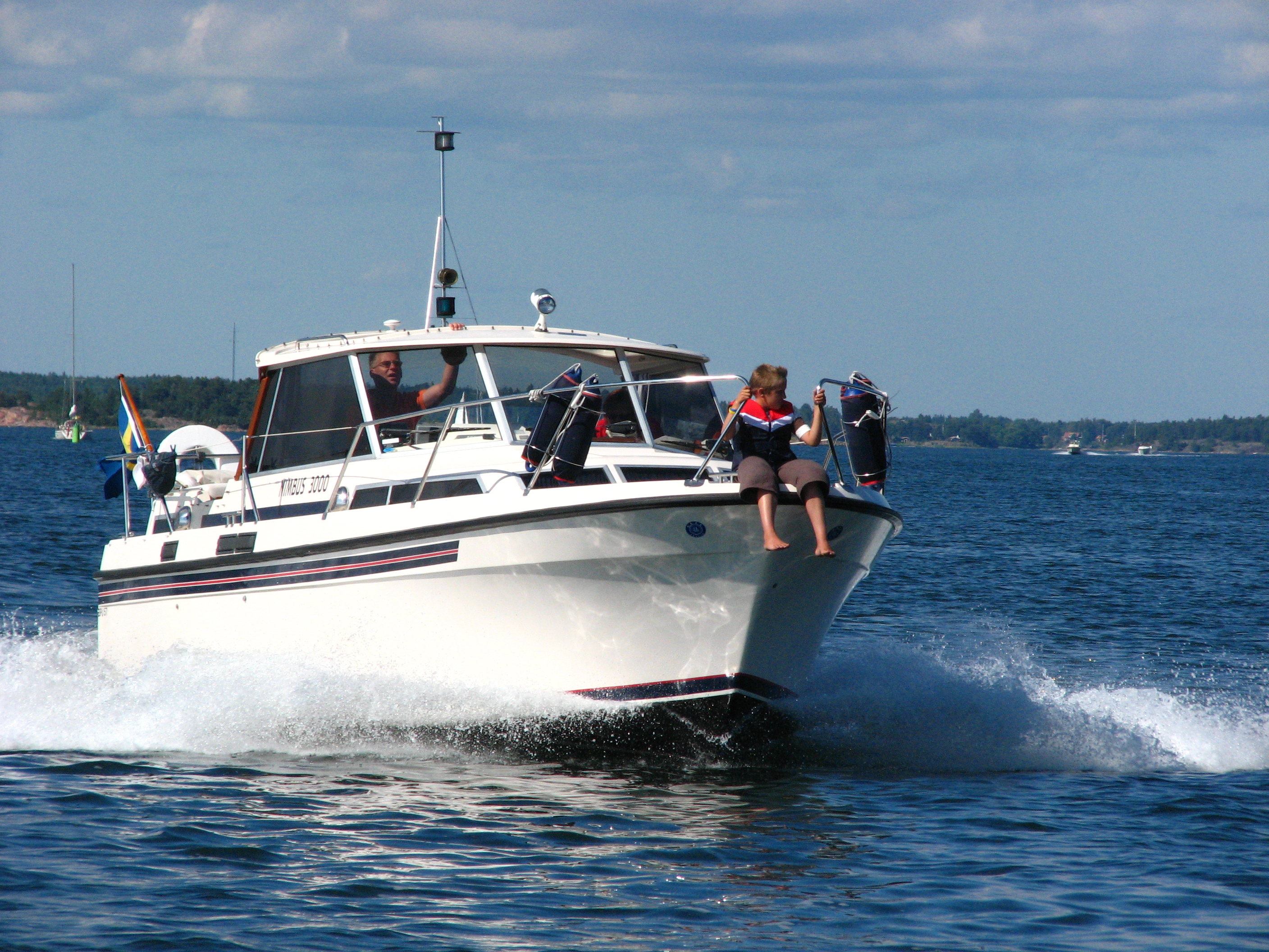 A Nimbus 3000 motorboat.